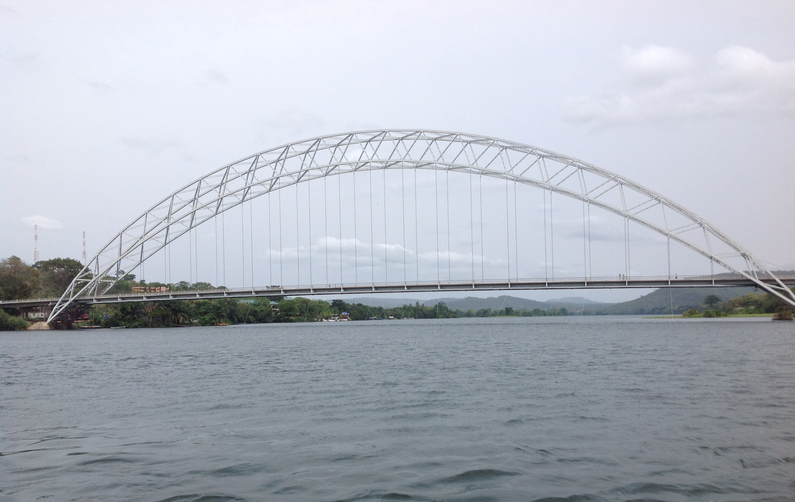 The Adomi Bridge is located at Atimpoku in the Eastern Region of Ghana over the Volta Lake. It serves as the main passage route for travellers to the Volta regional capital, Ho. This suspension bridge was built in 1957 and is truly a testament to engineering excellence.